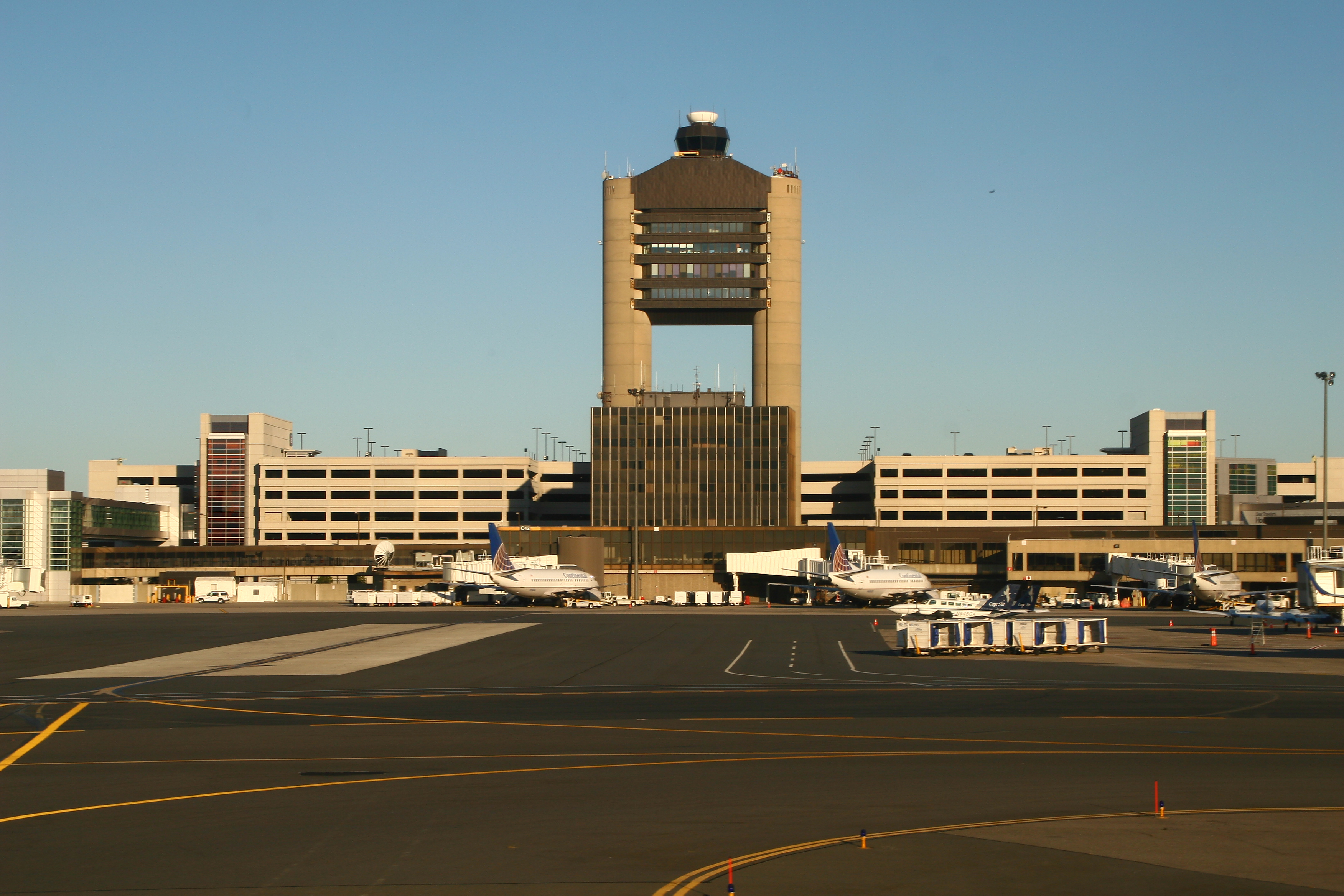 Portrait of Logan Airport